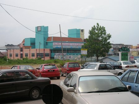 Title: Bahau Taken by: Adiput Date taken: 2007